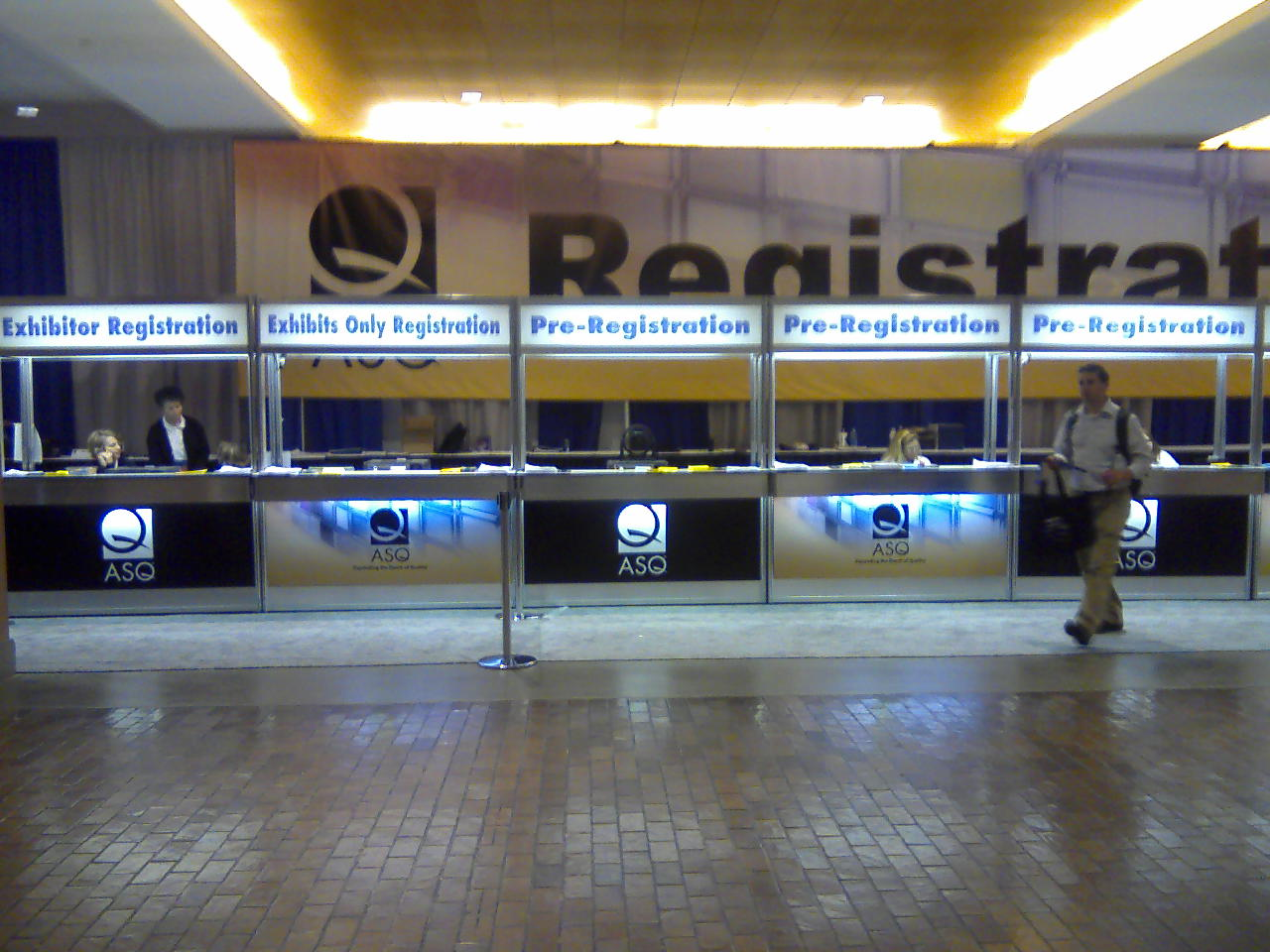 Registration booth inside America's Center in St. Louis for the 2010 American Society for Quality meeting on 24 May.